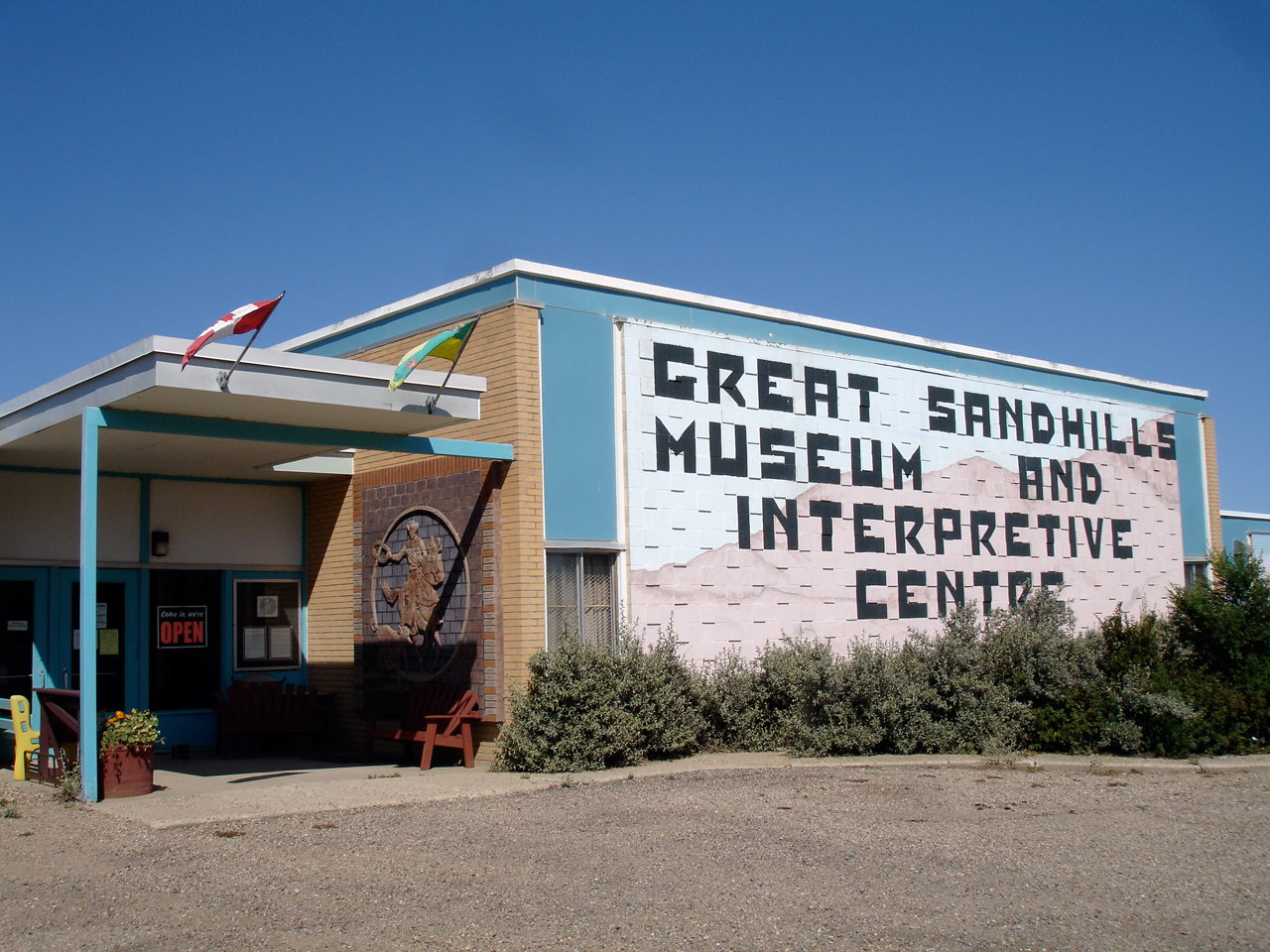 The Great Sandhills Museum (formerly a school) in the village of Sceptre, Saskatchewan, Canada.